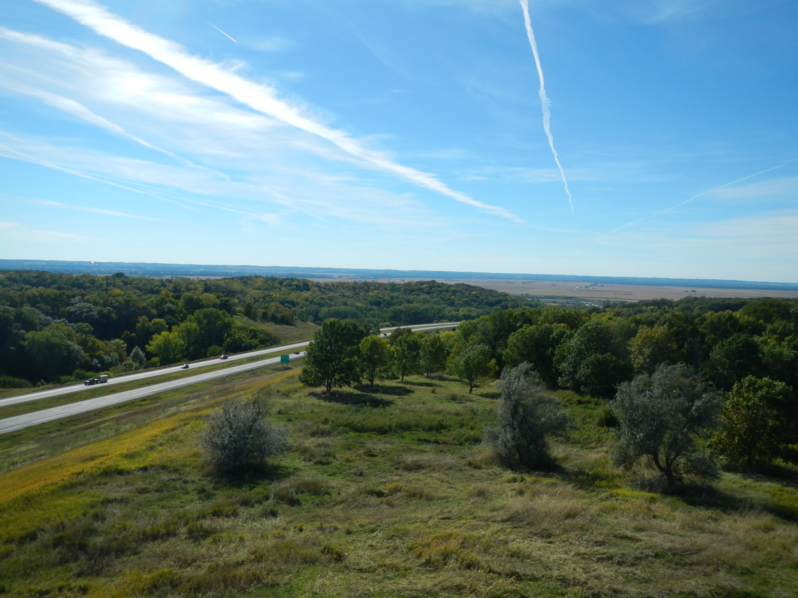 Rockford, IA, USA